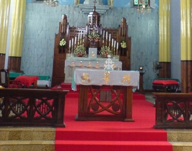 This Picture shows the interior of a "Palli" or Church. It shows the unveiled tabernacle of a Knanaya temple, with the Nasrani Menorah in Silver in the foreground on the table and 12 candlestands in the background representing the 12 tribes of Israel. This picture was photographed by me in November 2006 in Kottayam in Kerala in South India. Robin klein 21:22, 5 November 2006 (UTC)